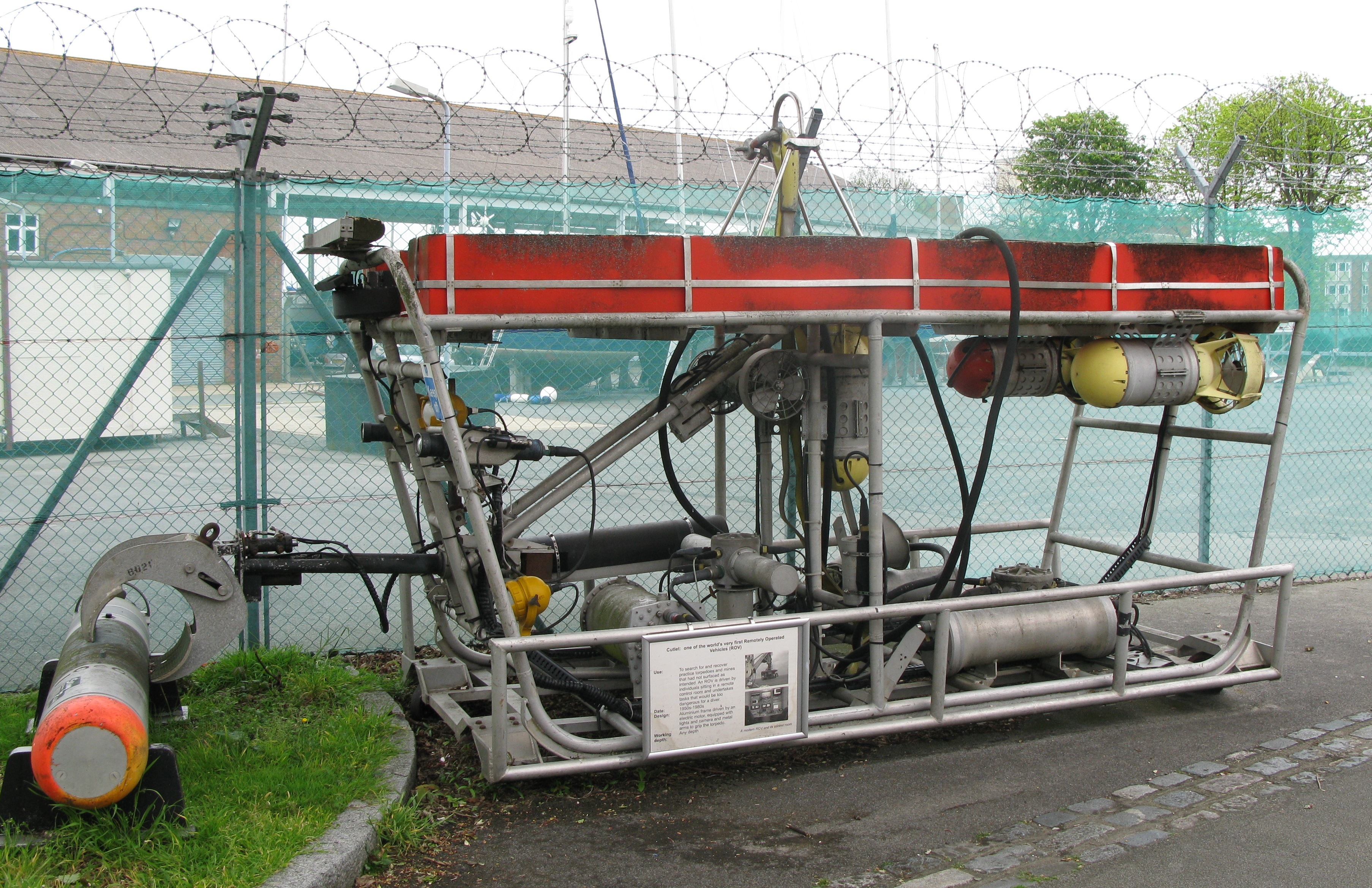 Photo of the cutlet Remotely operated underwater vehicle used by the royal navy to retrive practice torpedoes and mines.